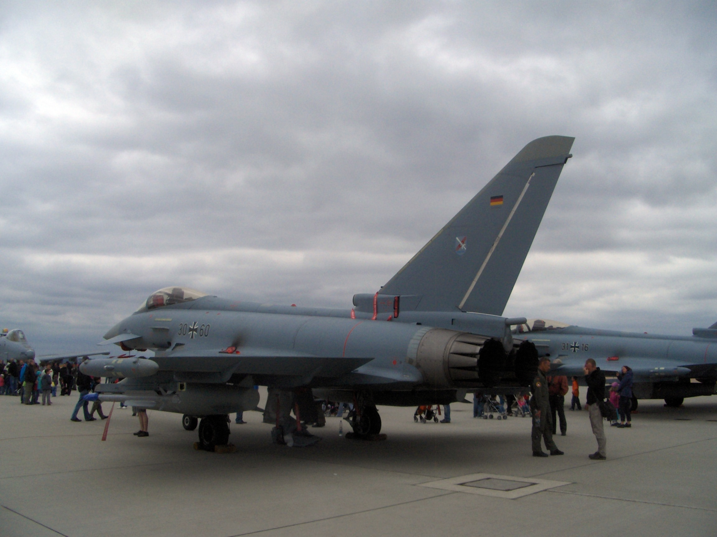 A German Luftwaffe Eurofighter Typhoon (s/n 30+60) from Jagdbombergeschwader 31 "Boelcke" (31st Fighter-Bomber Wing) on display during the "Open House 2011" of U.S. Spangdahlem Air Base, Germany.